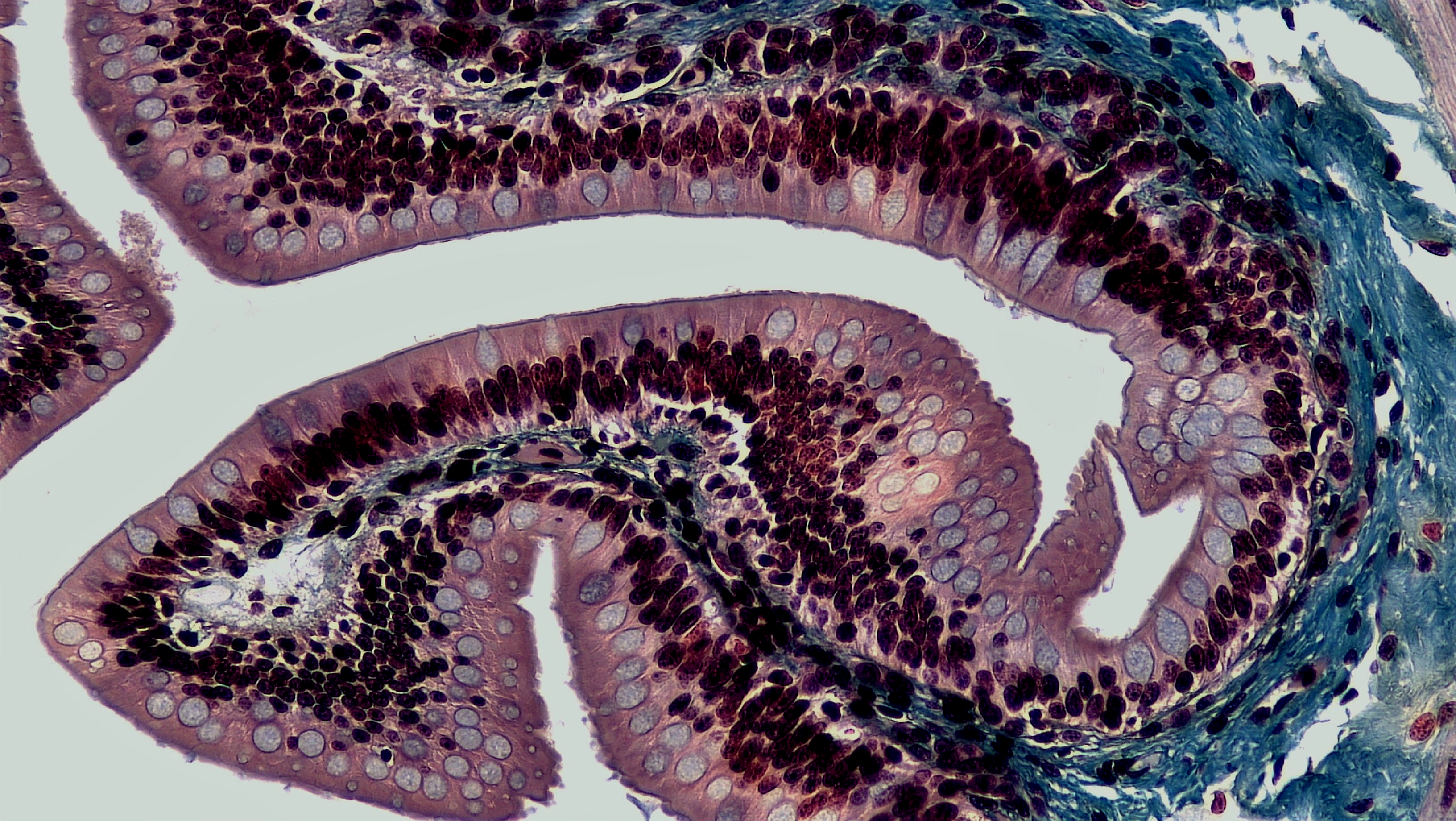 cross section: mammalian gut magnification: 10x